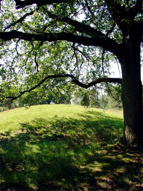 Tumulus near Rolde